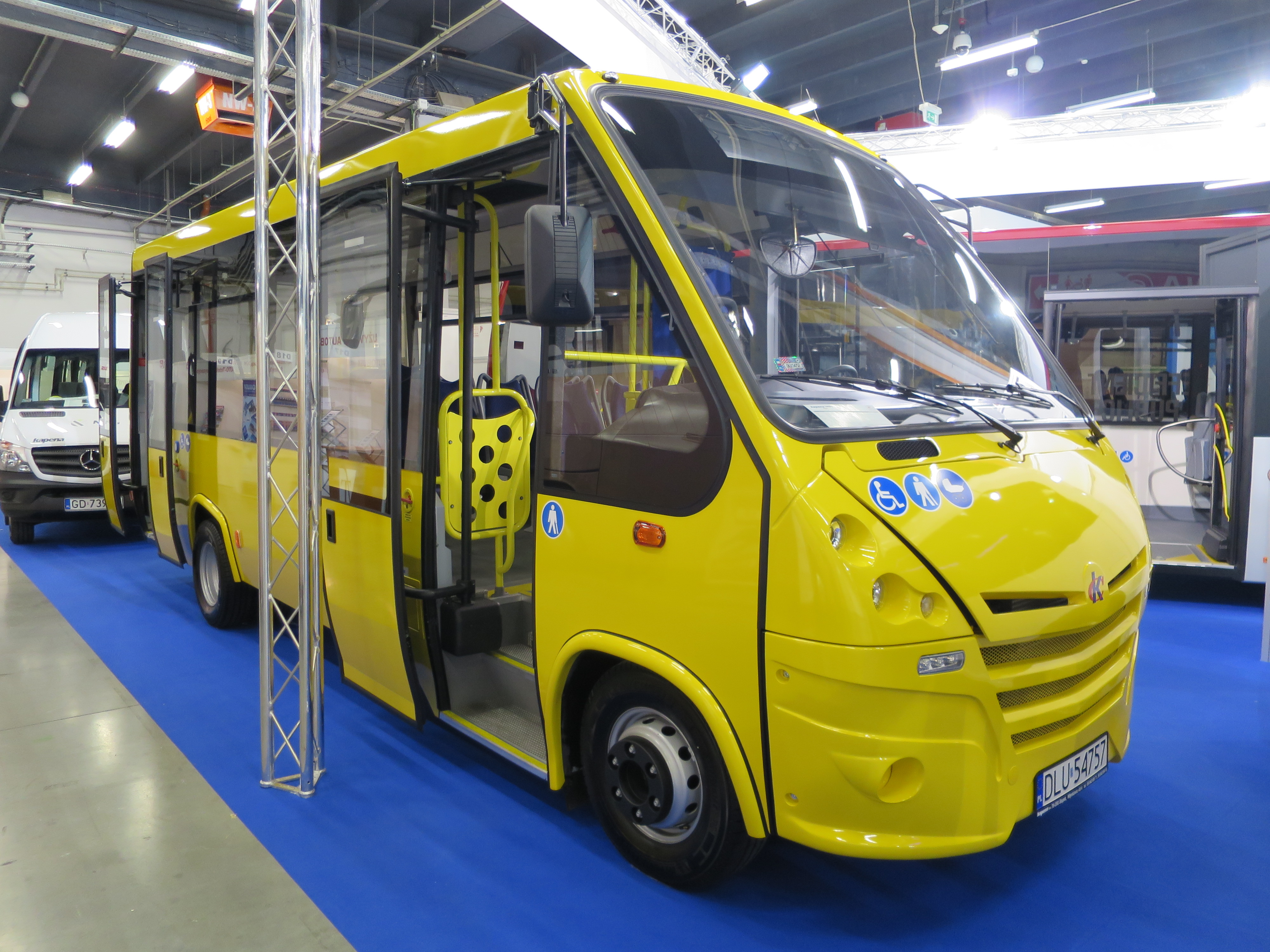 The making of this document was supported by Wikimedia Polska Association, within Wikigrant no. WG 2016-45. Kapena Urby